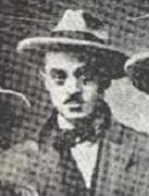 Notis Kamperos, the man who gave Olympiacos its name and a high-ranking officer of the Hellenic Navy